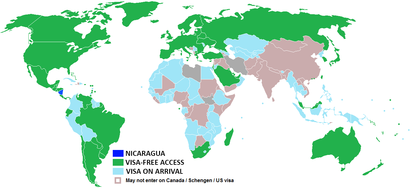 Nicaragua's visa policy